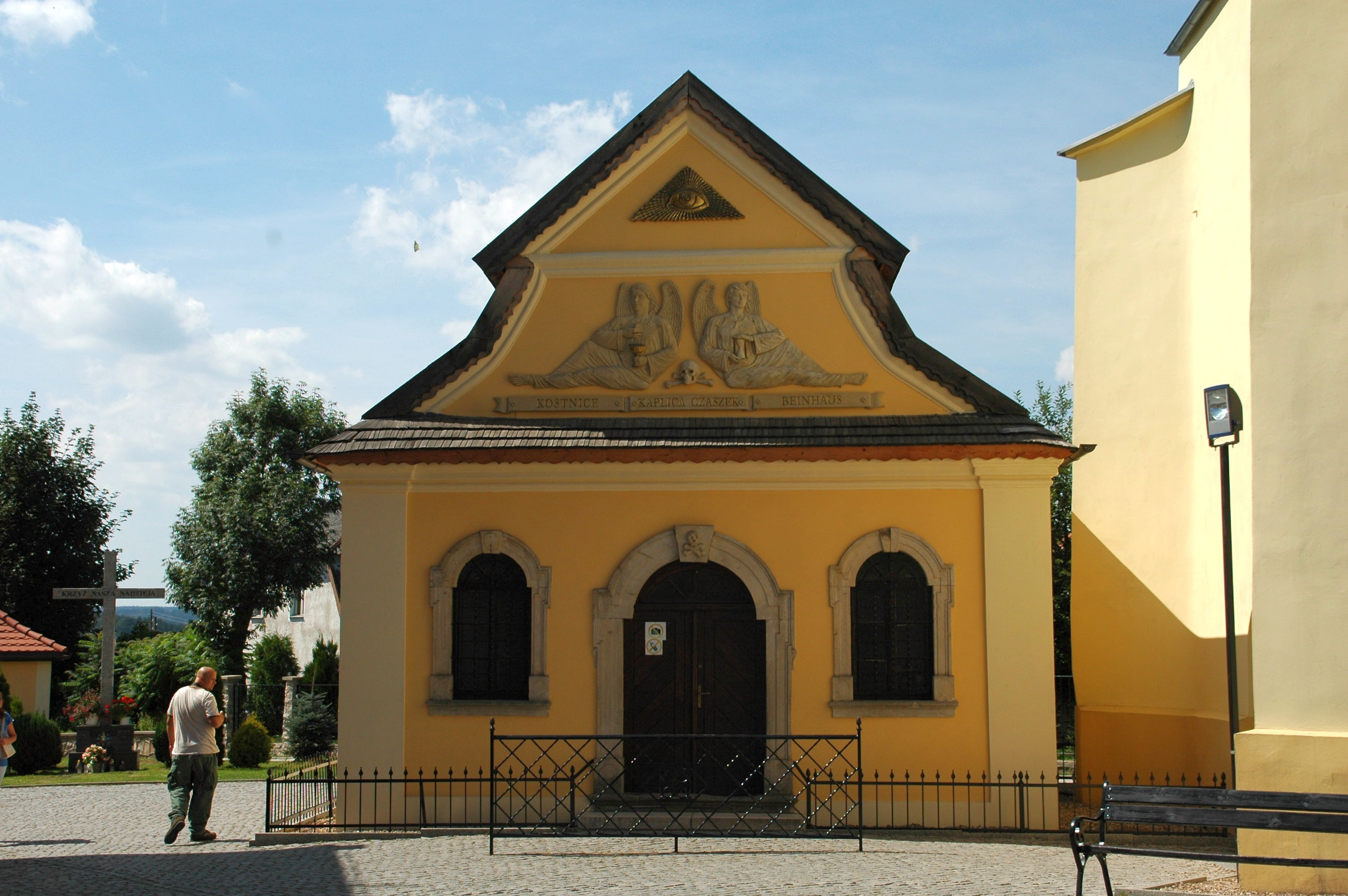 Chapel of Skulls in Czermna, Poland. Kaplica Czaszek w Czermnej. Poland - Czermna - Chapel of Skulls - exterior